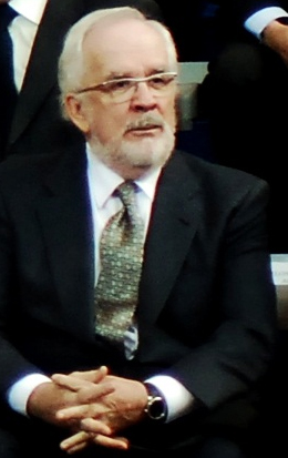 Spanish drawer Forges